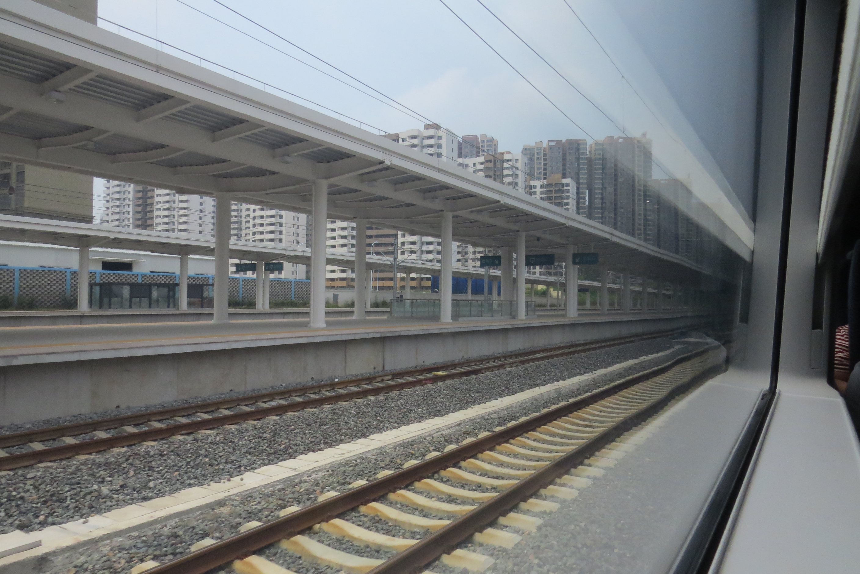 G27 passed the no-service station slowly.